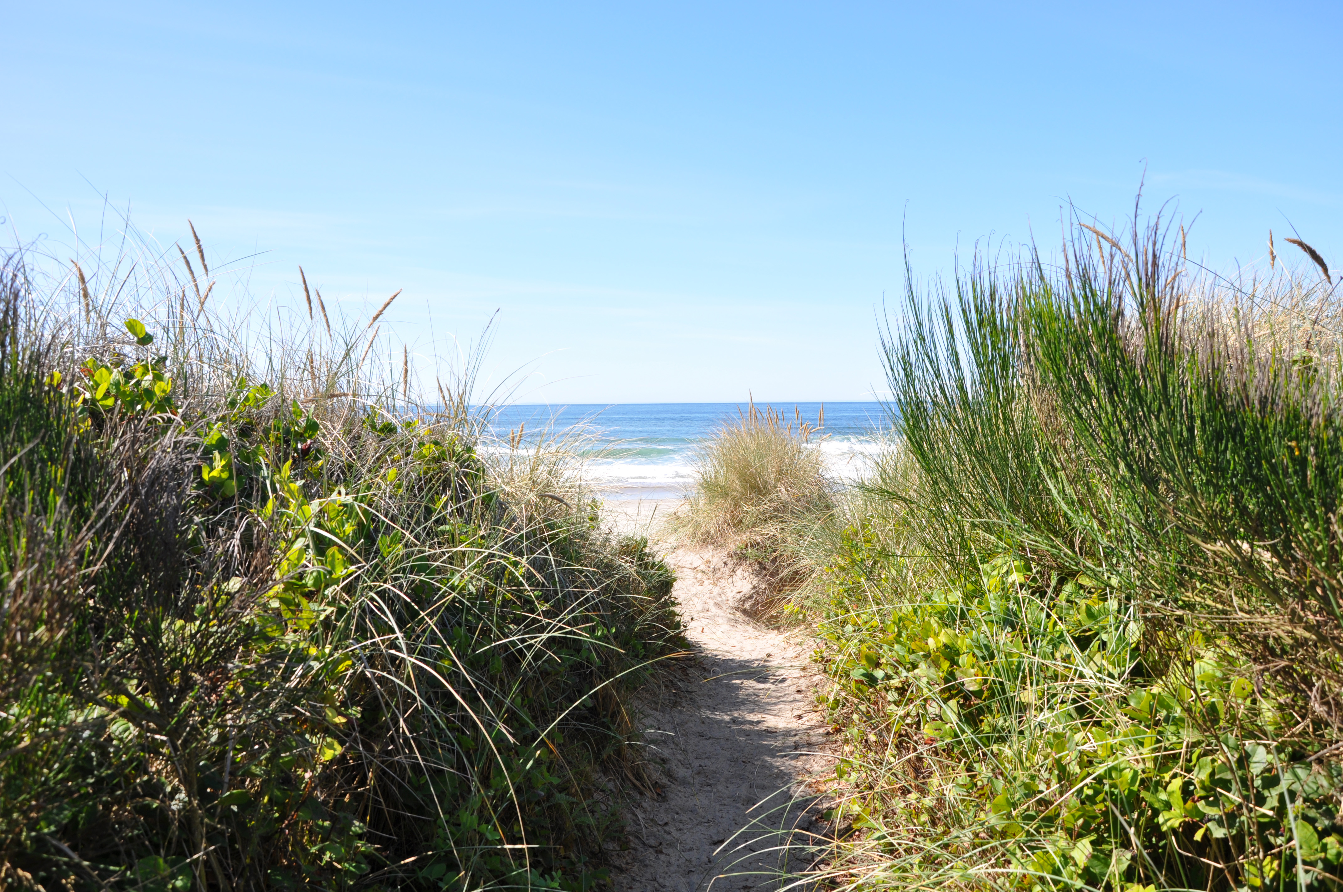 Path at Manhattan Beach State Recreation Site on the Pacific Ocean north of Rockaway Beach, Oregon, in the United States. The park is just off U.S. Route 101.